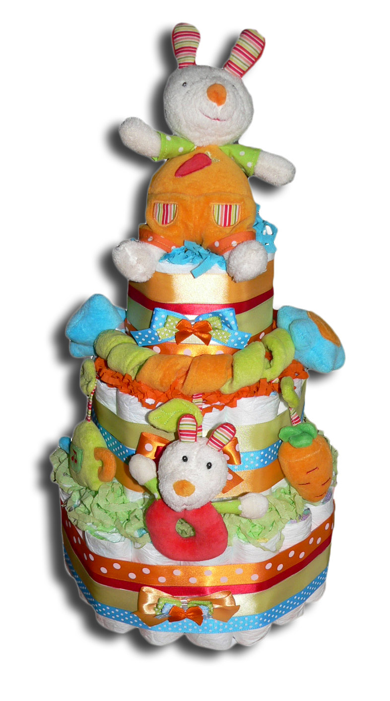 diaper cake